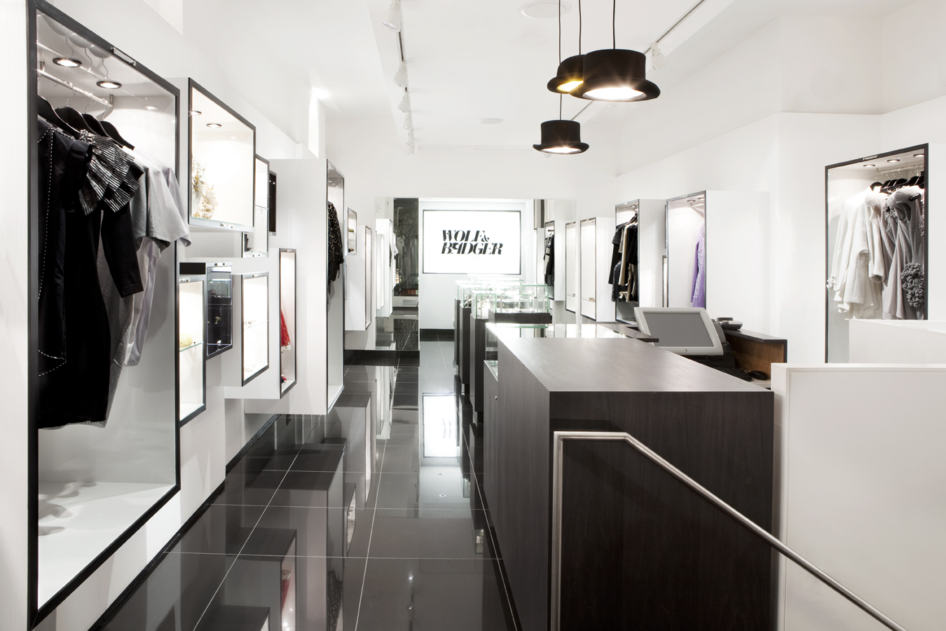 Wolf & Badger boutique in Notting Hill Design by Augustus Brown Own work Photography by Georgie Clarke